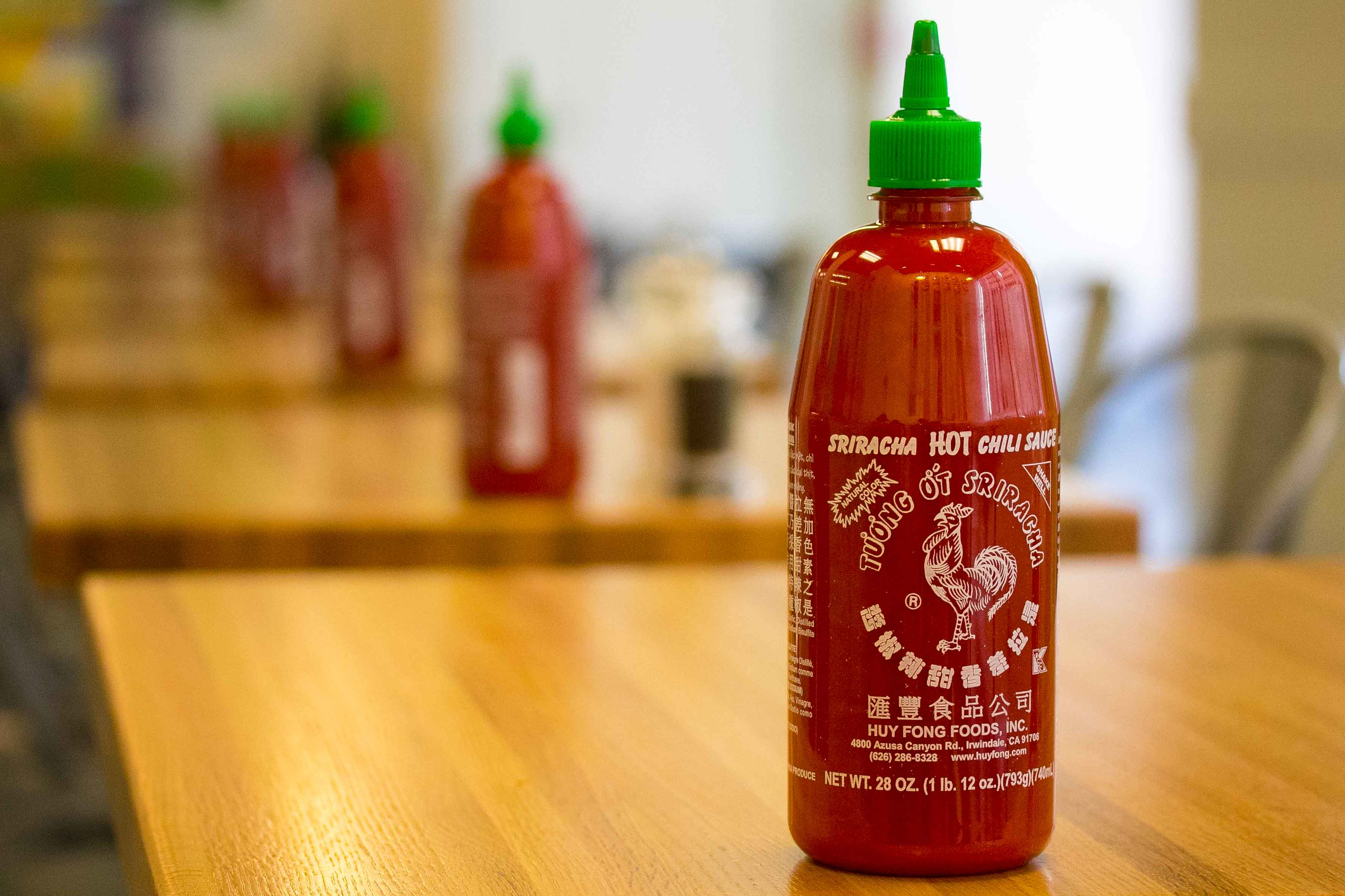 Sriracha Hot Sauce Bottles Freshii Restaurant Family Dinner Downtown Grand Rapids June 27, 2014(on which the trademarked rooster logo has been pixelated)